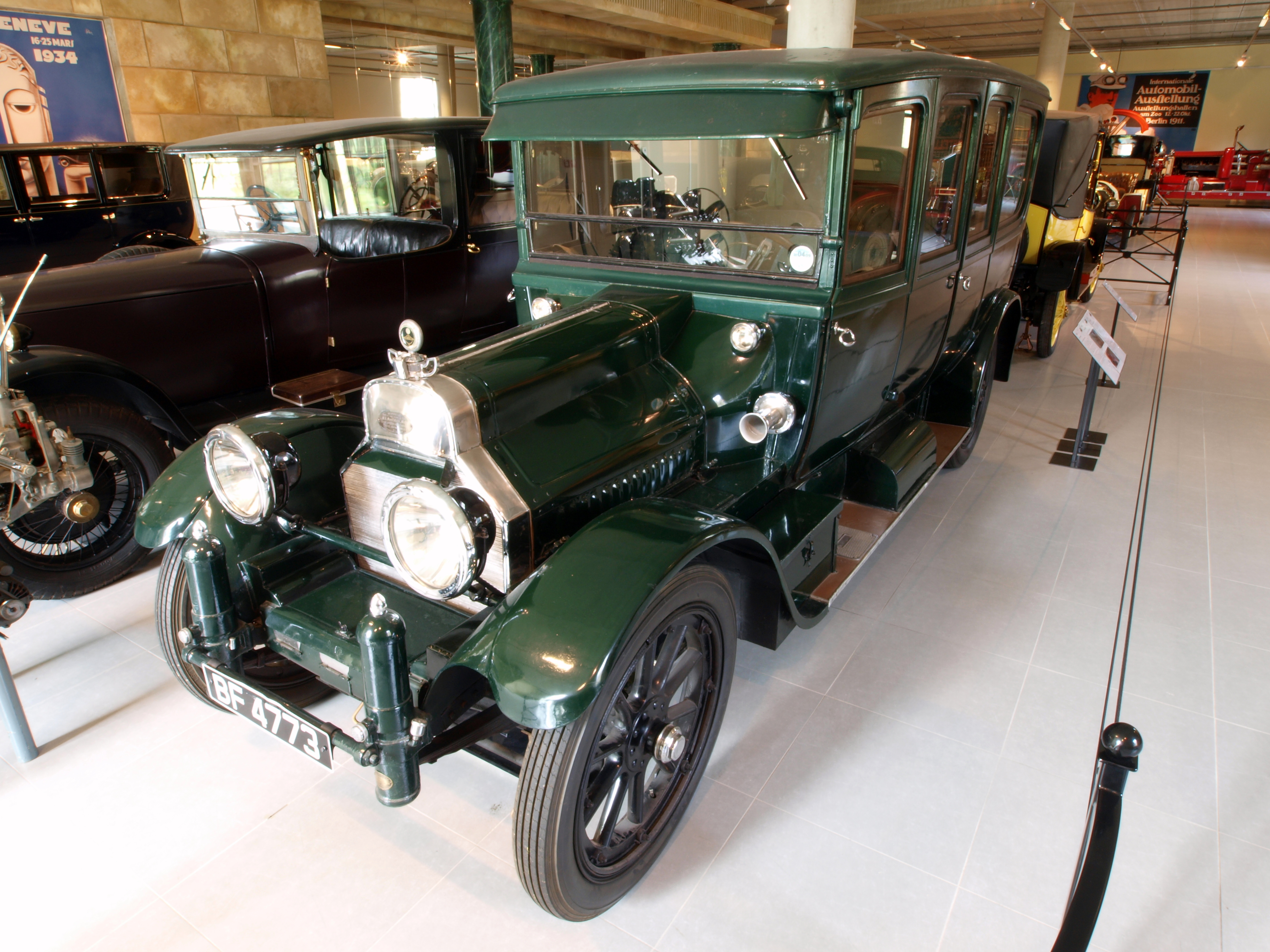 Photographed at the Louwman museum / Louwman Collection, The Netherlands.